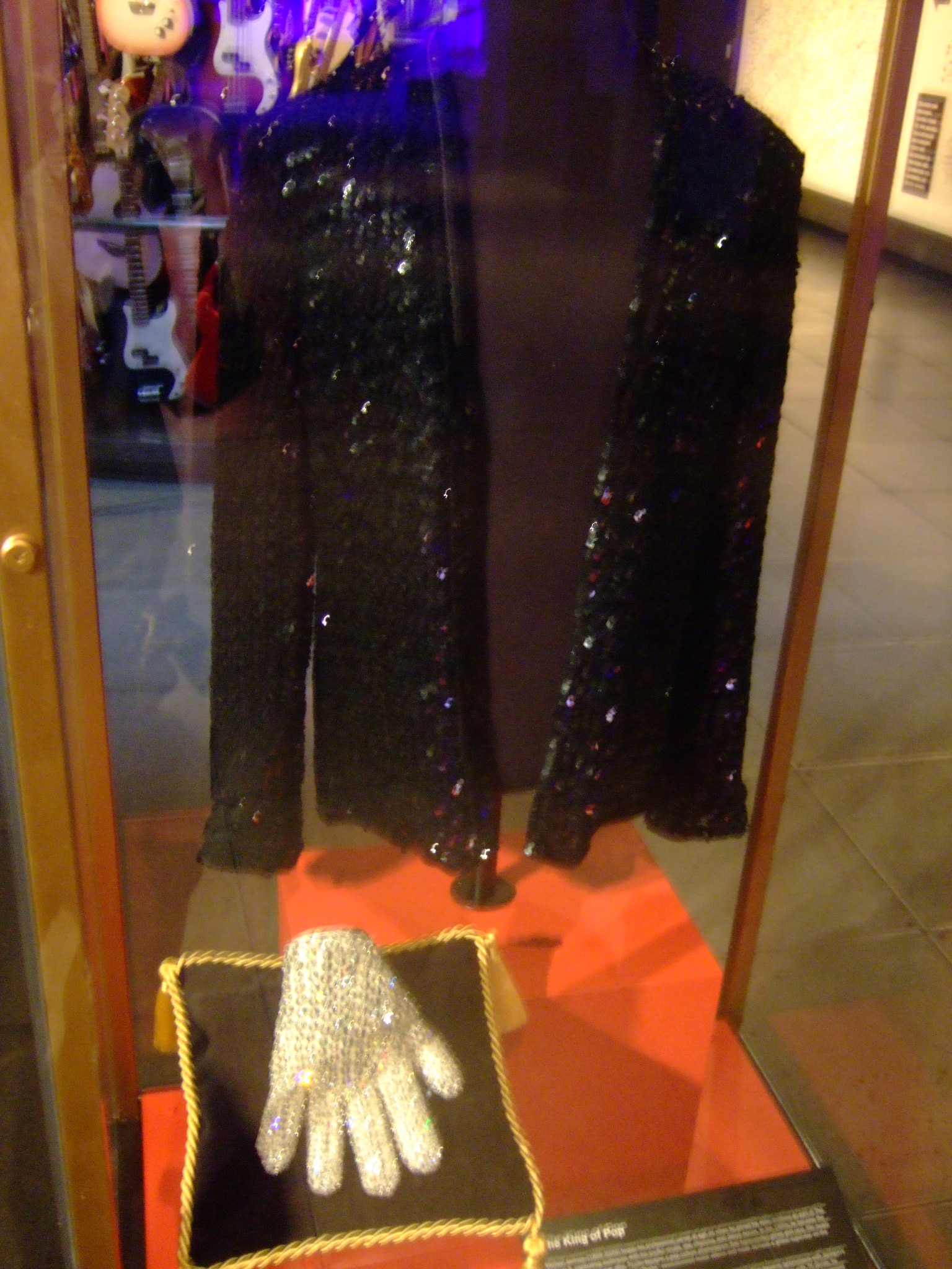 Experience Music Project/Science Fiction Hall of Fame, Seattle.